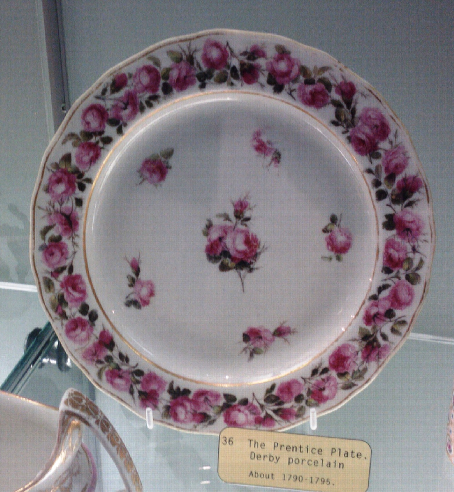 The Prentice Plate Derby Porcelain by William Billingsley 1790ish